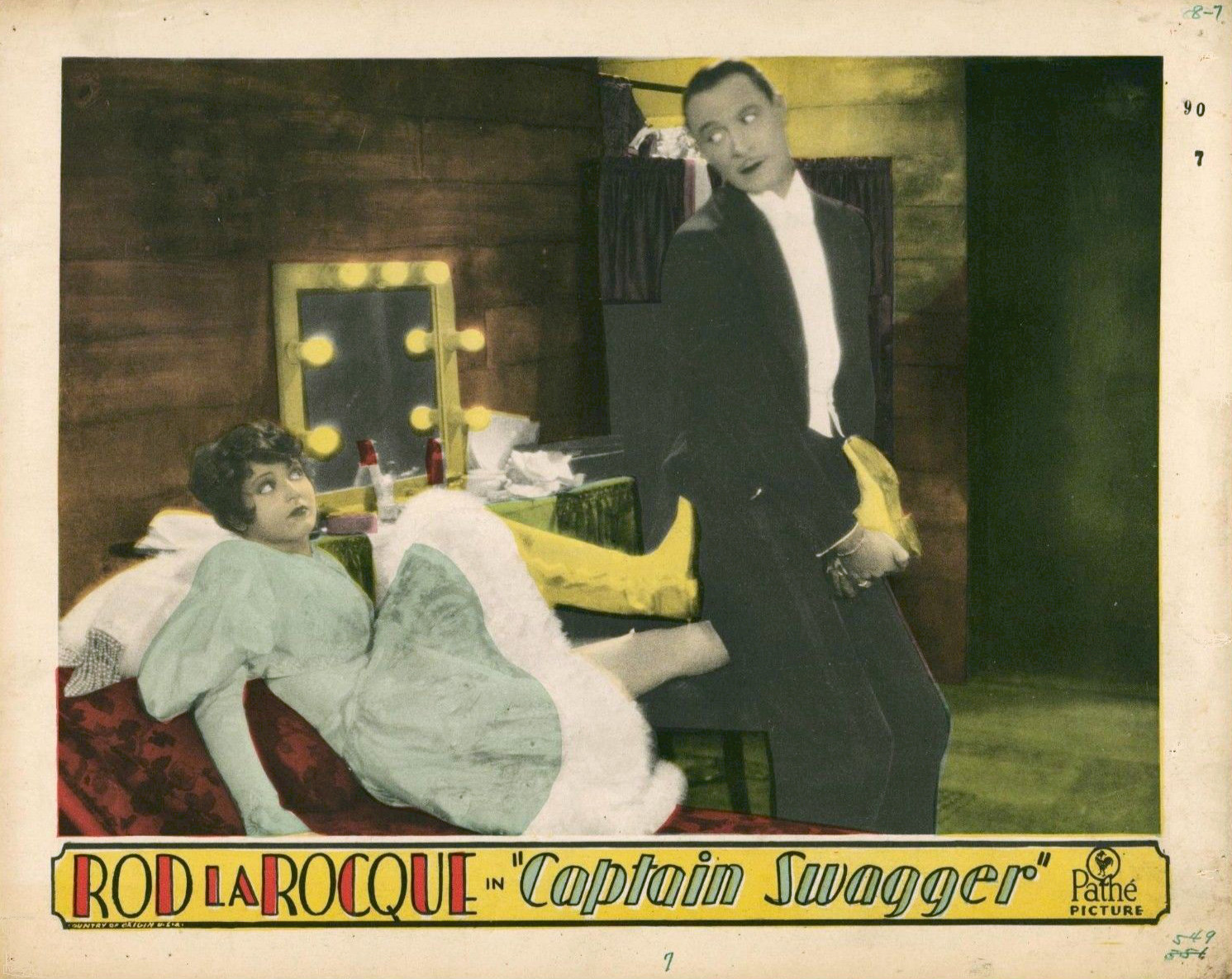 Lobby card for the American crime drama film Captain Swagger (1928). There are no copyright marks on the item. At bottom left (in title) is Country of origin USA. At bottom and at left borders are numbers which may pertain to the print job for the card.